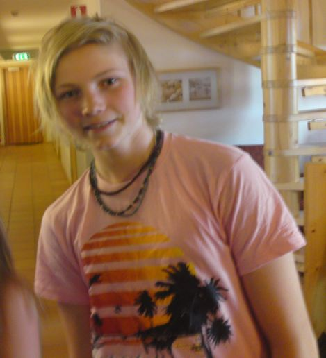 The swedish singer Ulrik Munther.